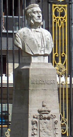 Auguste Beernaert (1829-1912), Belgian politician and prime minister; winner of the Nobel Prize for Peace in 1909 Statue by Louis Mascré (1871-1929) in Oostende, Belgium Cropped version of Image:Auguste Beernaert(02).jpg